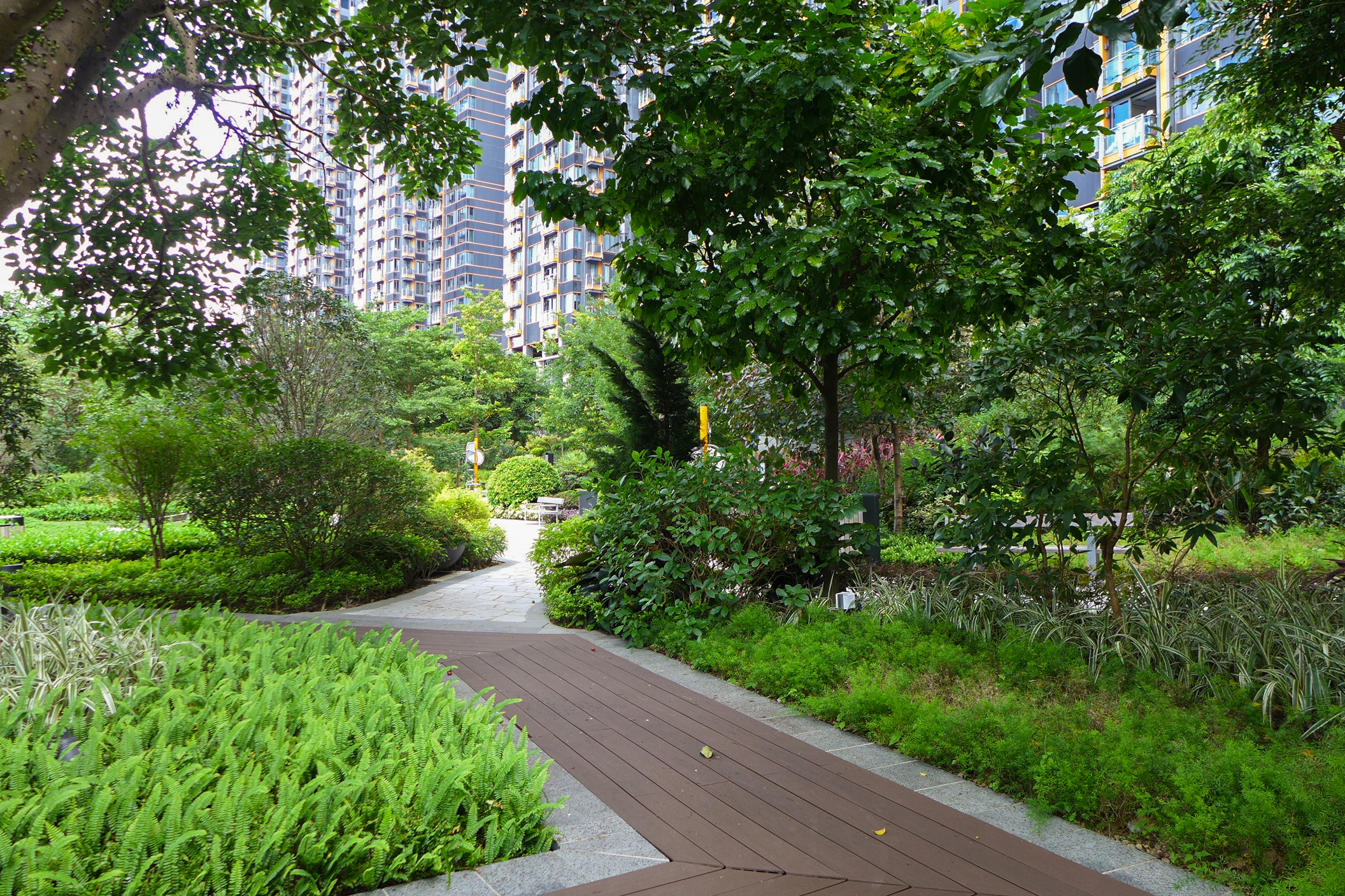 Double Cove Phase 3 Garden